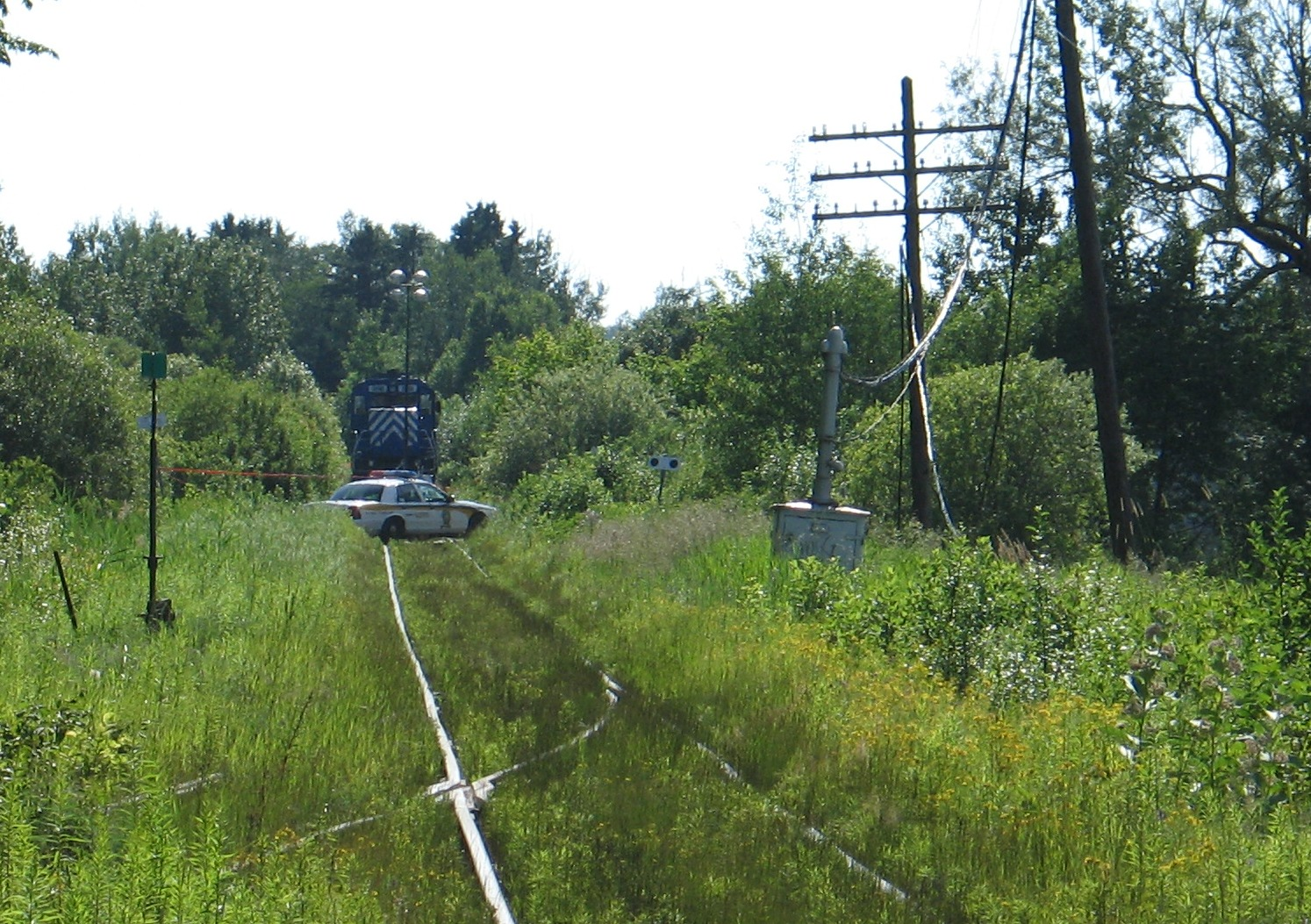 One of the five locomotives of the train that derailed in Lac-Mégantic, Quebec, on July 6, 2013 is guarded by a Sûreté du Québec police cruiser. Locomotives were somehow detached from the train and stopped 1 kilometre (0.6 mile) from the scene of the explosion that killed 47 people.